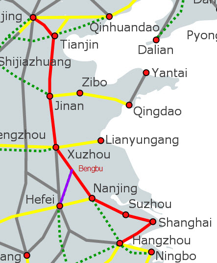 Location of High speed Hefei–Bengbu